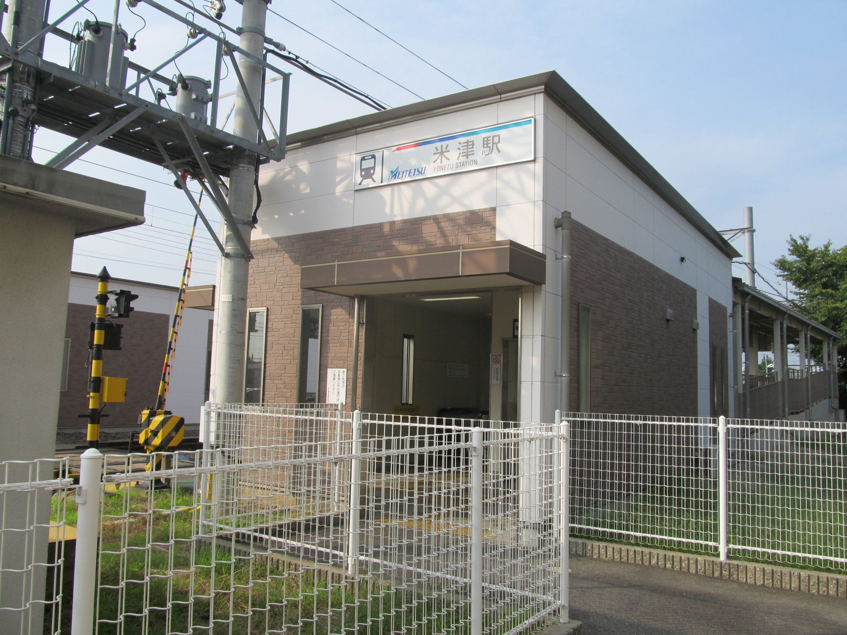 Nagoya Railroad Nishio Line Yonezu Station Building (for Nishio).